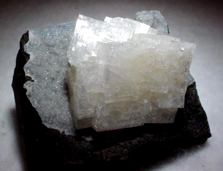 Chabazite Locality: Kandivali Quarry, Malad, Ward 38, Mumbai (Bombay), Mumbai District (Bombay District), Maharashtra, India (Locality at ) This is actually a really huge and fine crystal for the species from India, where amongst many more common zeolite species, chabazite remains to this day a true rarity. This well-trimmed miniature (if i say so myself, having done it!) specimen features intergrown rhombohedral crystals to 2.5 cm and should be considered important for the species from ANY location 4 x 3 x 2.8 cm